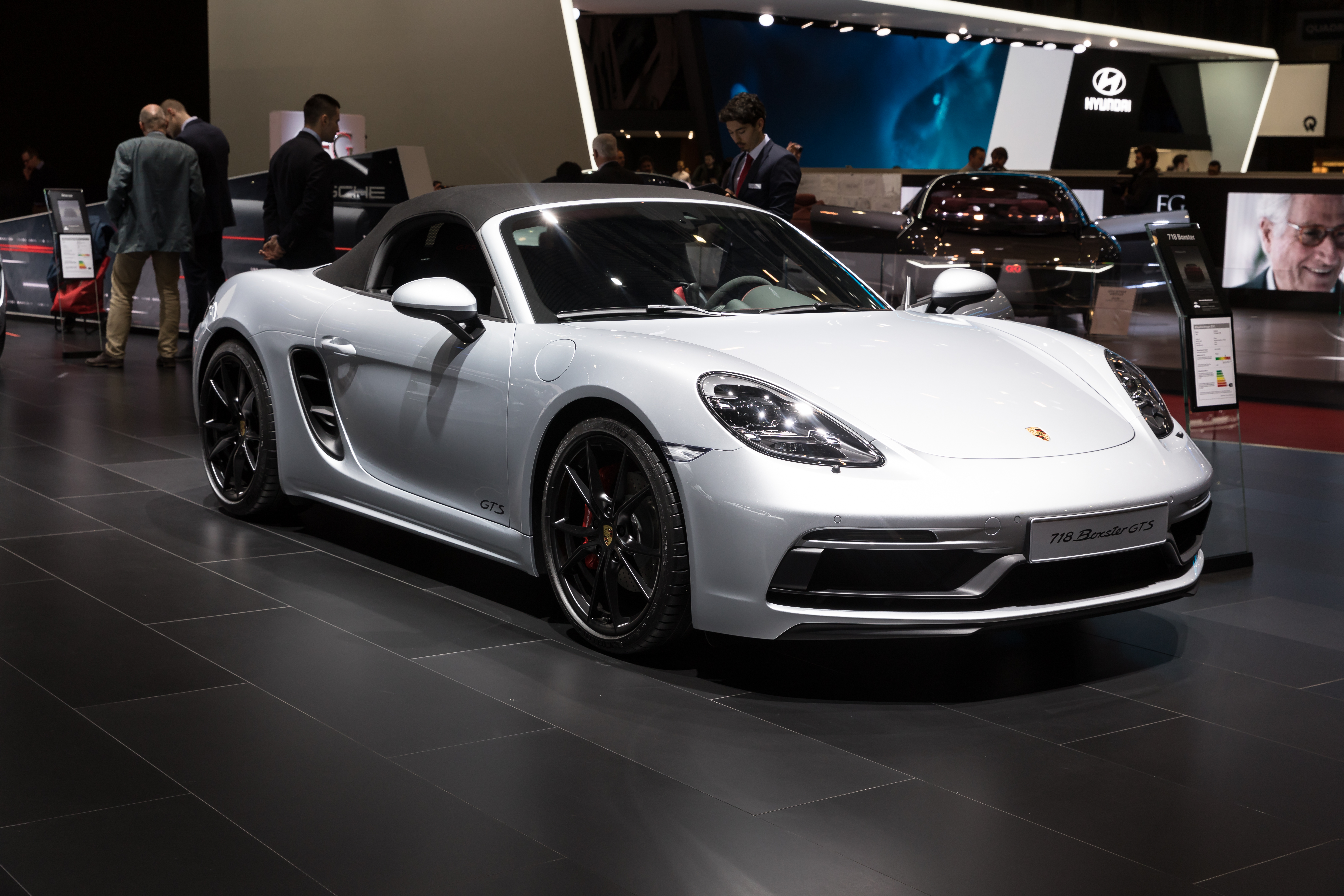 Geneva International Motor Show 2018, Porsche